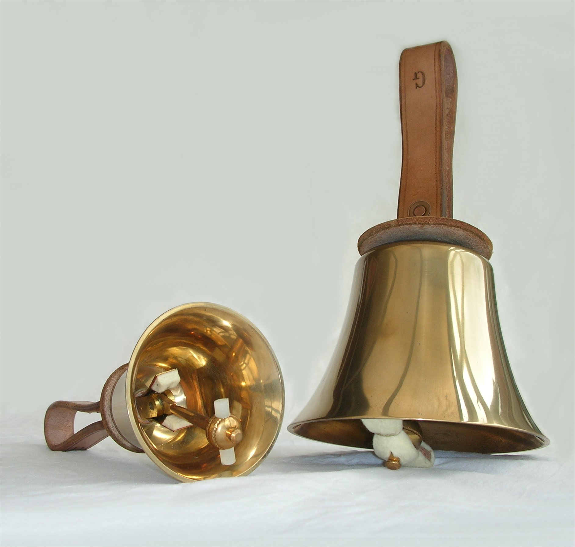 Photograph of two musical/change-ringing handbells, manufactured by Whitechapel Bell Foundry of London, UK, approximately 1982. Larger bell is size 18G (diameter 144mm; weight 2lb 2oz 980g), smaller is size 7D.